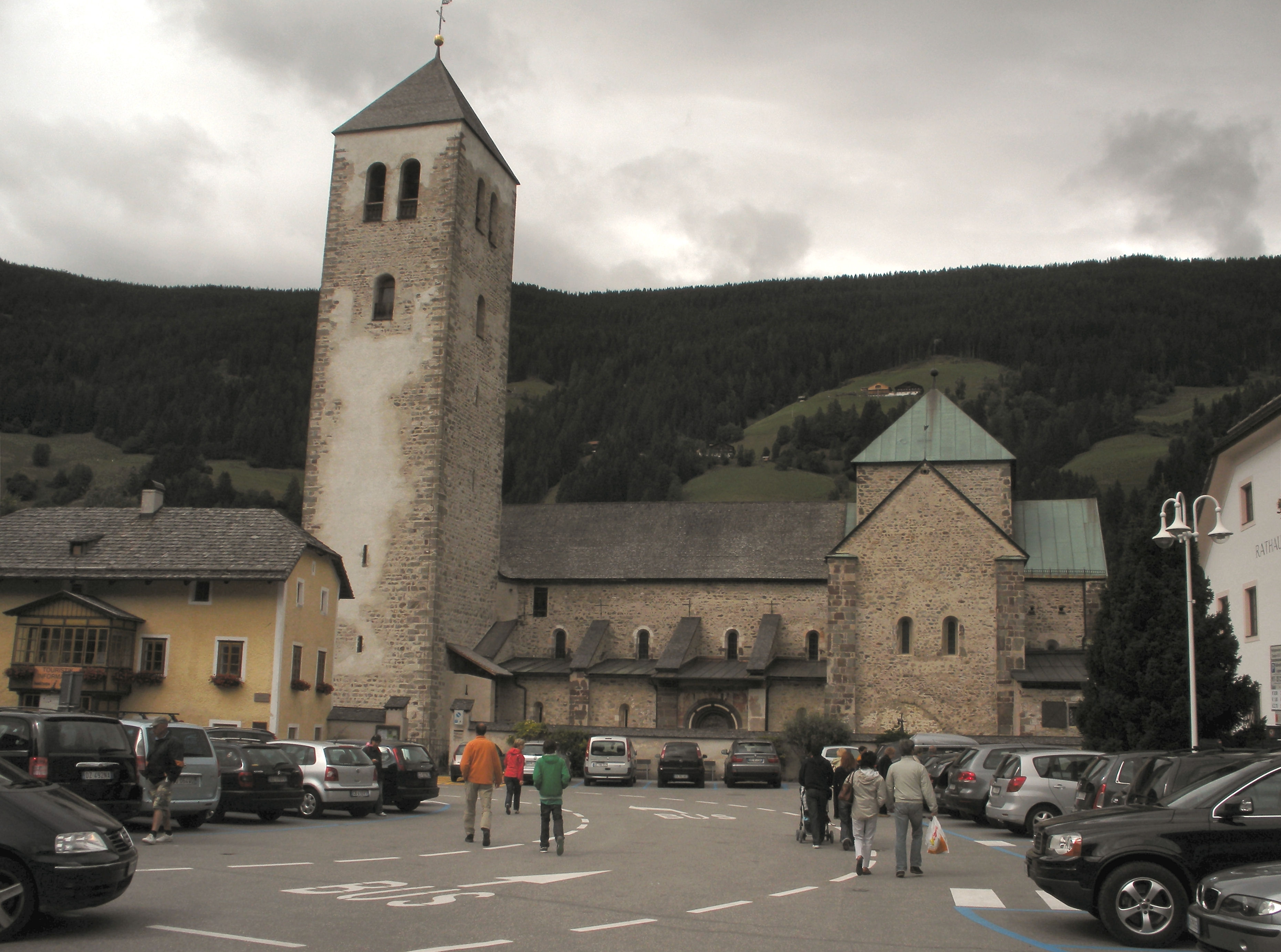 San Candido/Innichen (Alto Adige/Sudtirol), Collegiata